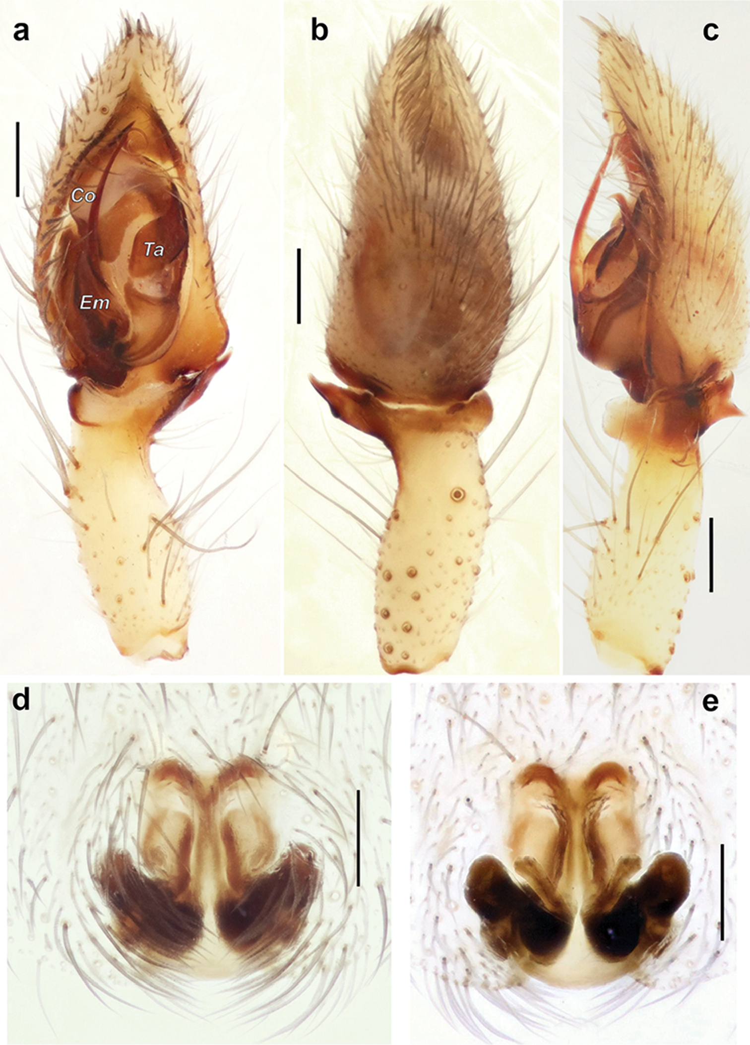 Figure 8; Copulatory organs of Pterotricha strandi. a–c male palp, ventral, dorsal and retrolateral d, e epigyne, ventral and dorsal. Scale bars = 0.2 mm. Abbreviations: Co conductor; Em embolus; Ta tegular apophysis.